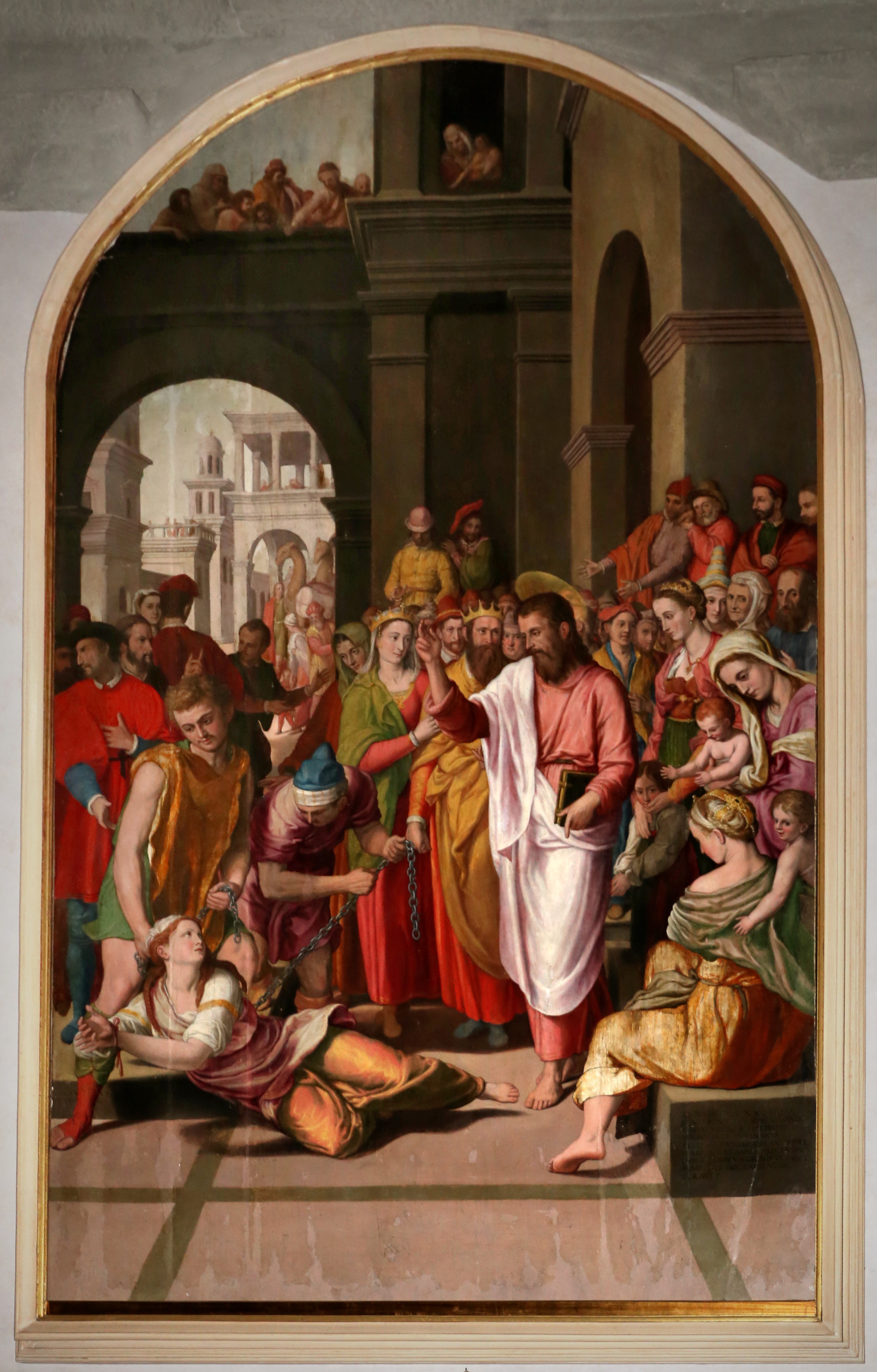 San Bartolomeo (Cutigliano) - Interior